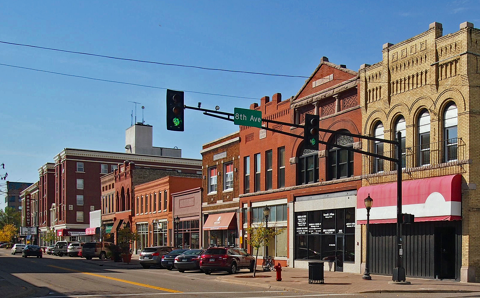 800-block of St Germain St, St Cloud Commercial Historic District, St Cloud, Minnesota, USA. Viewed from the east.